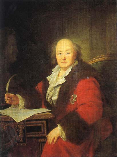 Ivan Perfilevich Elagin (1725-1794)